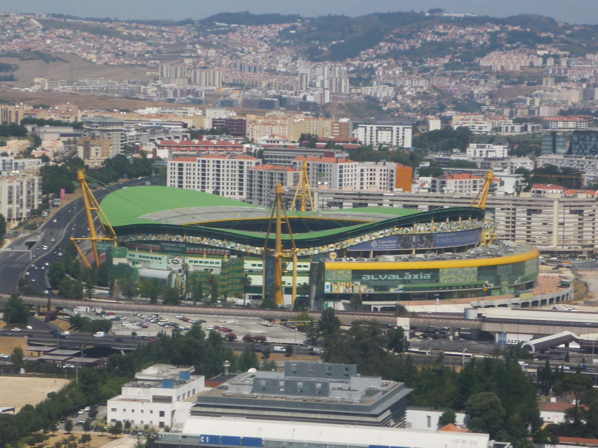 stadio dall'alto